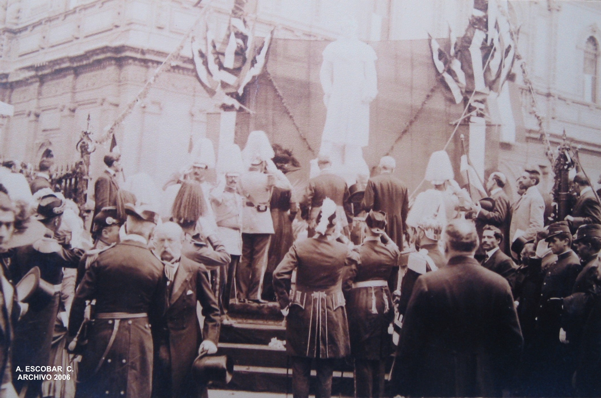 A Escobar C digital Archive Mexico's hundred years of independece festivity, 1910; Alexander Von Humbolt sculpture's inaguration by the German delegation